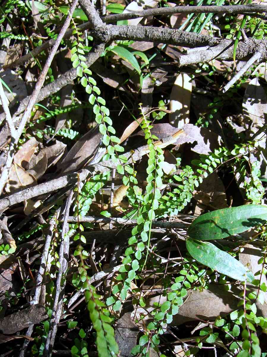 ground fern Chatswood west, likely to be Lindsaea linearis